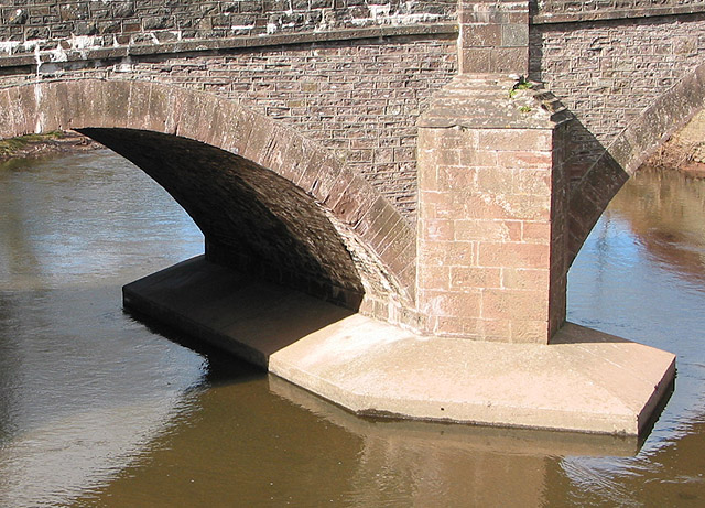 Pier detail - Skenfrith Bridge One of two piers, supporting the three-arch bridge over the River Monnow.